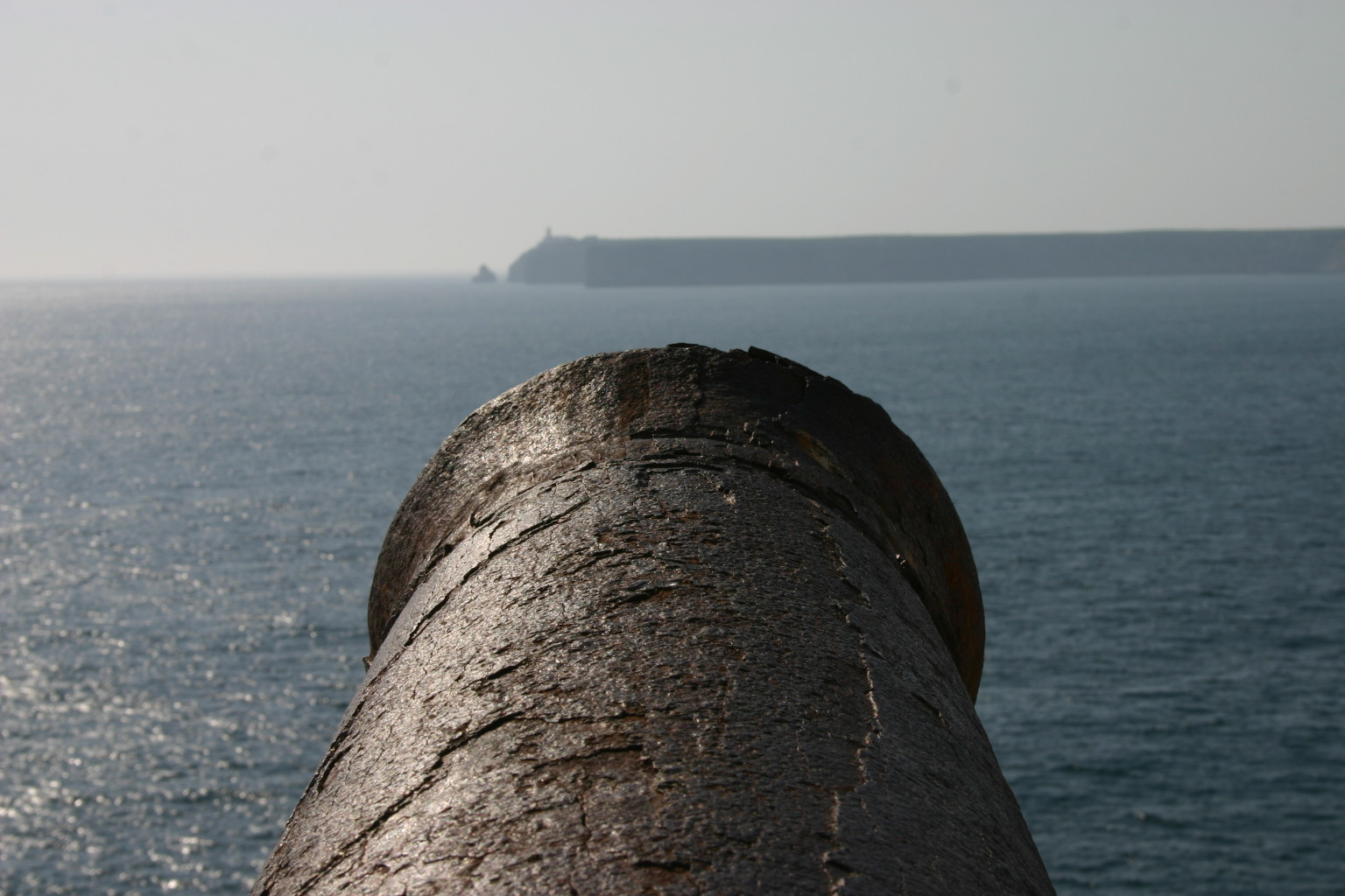 Autor: António ML Cabral Esta foto pode ser usada para qualquer tipo de utilização com a condição de ser indicado o nome do autor. This picture can be used for all kinds of usage with the condition of the author's name to be indicated.